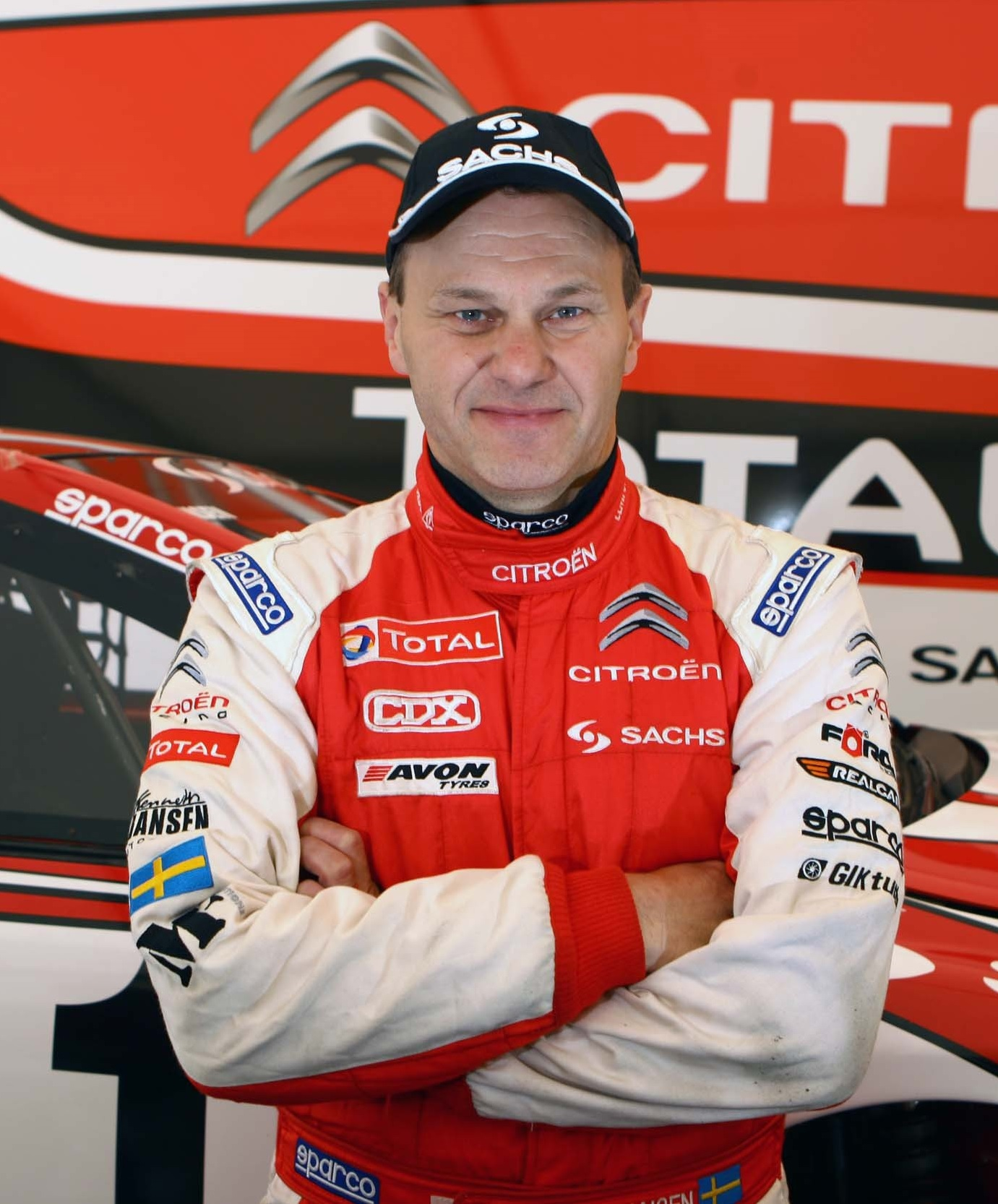 Swedish rallycross driver Kenneth Hansen.